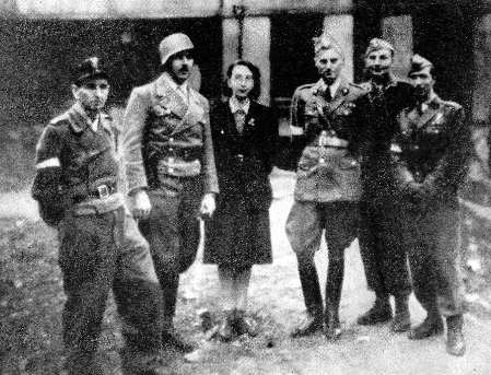 Warsaw Uprising. Combat group „North” staff members. From the left: Capitan Lucjan Fajer „Ognisty”, Major Włodzimierz Kozakiewicz „Barry”, Irena Kwiatkowska „Basia”, Colonel Karol Ziemski „Wachnowski” (commander of Combat group „North”), Lieutenant Eugeniusz Ihnatowicz-Suczyński „Eugeniusz”, Capitan Alfred Pokultinis „Fon”.